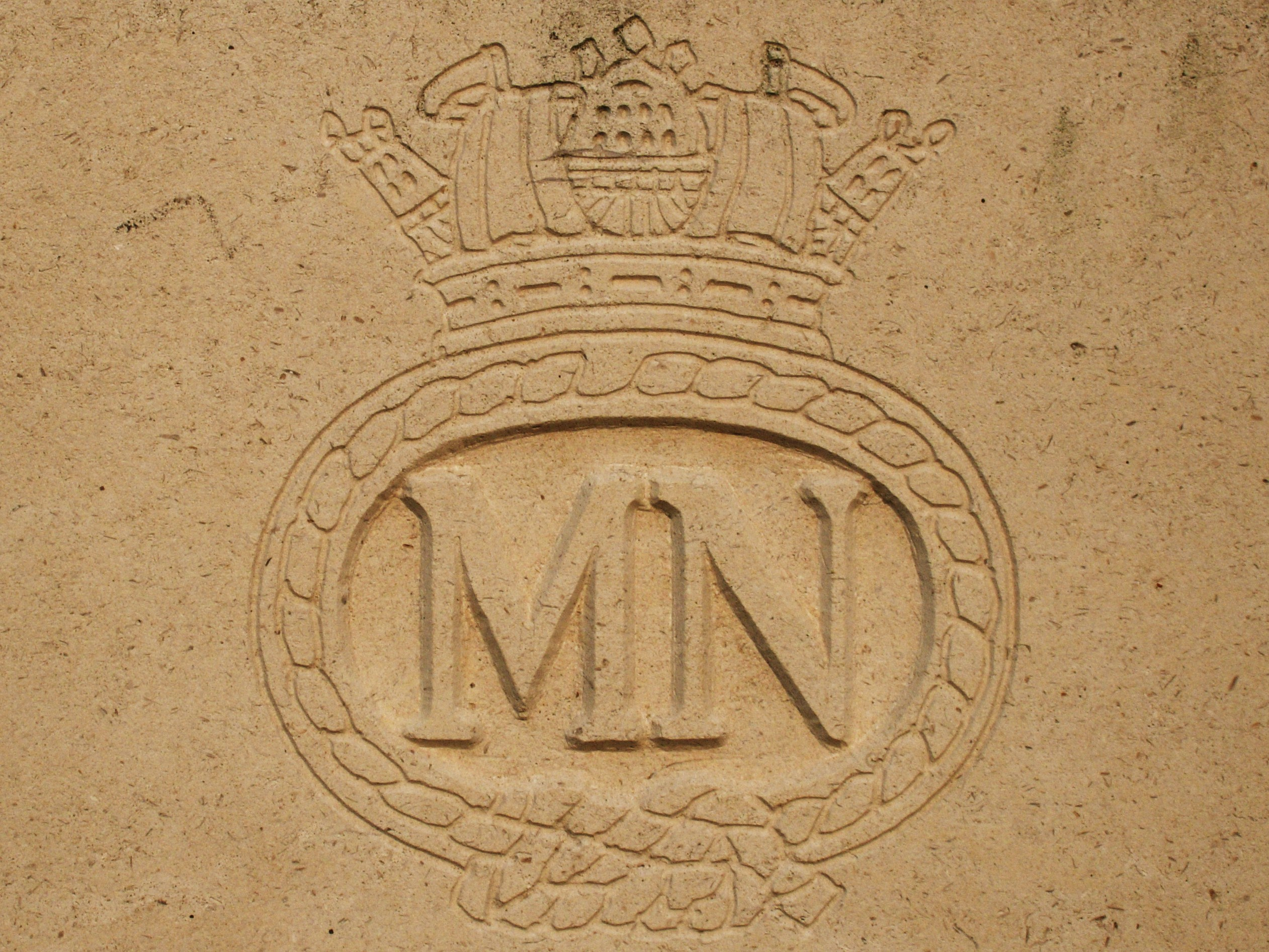 Badge of the British Merchant Navy as inscribed on the grave of late A.V. Frain of SS St. Vincent de Paul, at Stanley Military Cemetery, Hong Kong